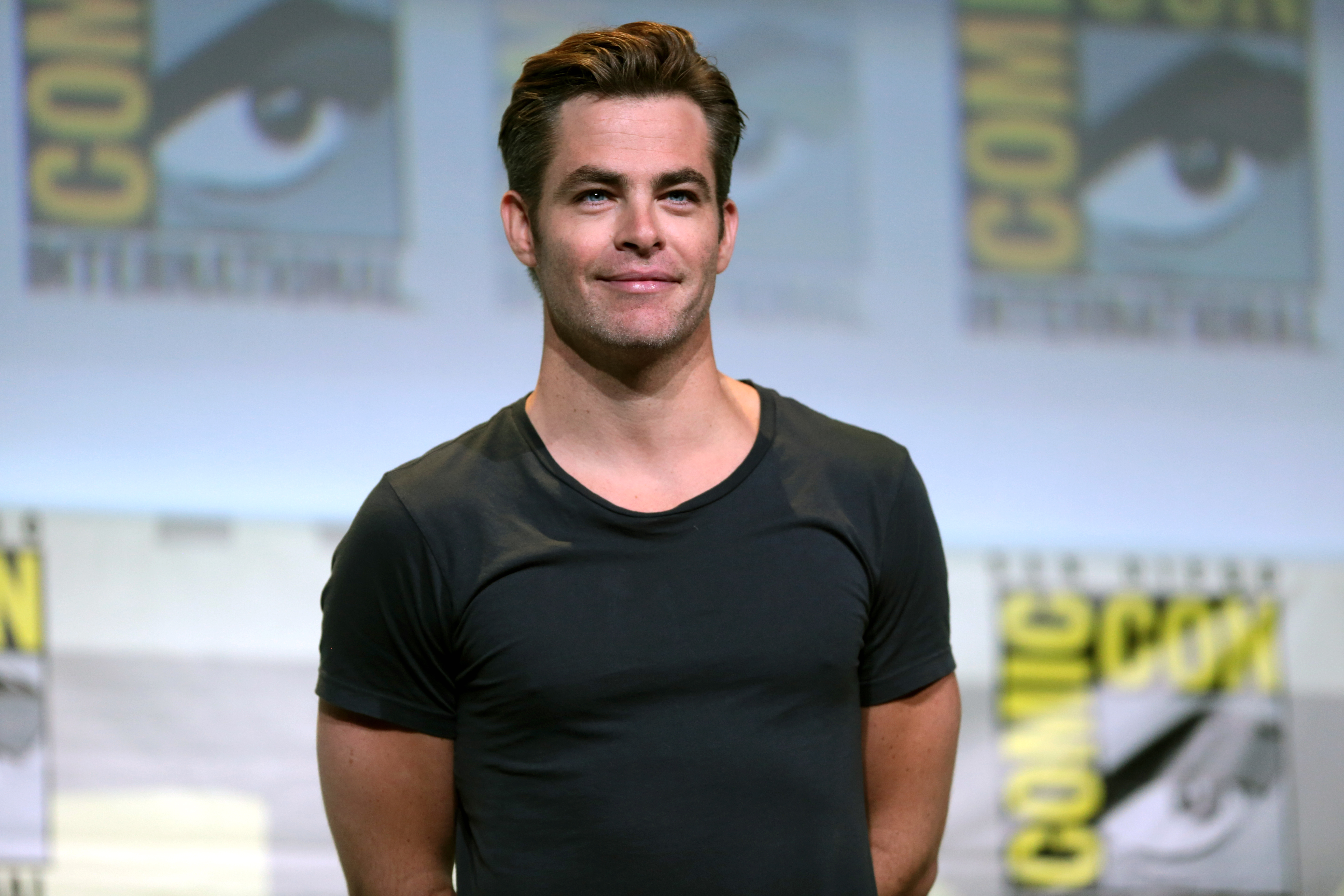 Chris Pine speaking at the 2016 San Diego Comic Con International, for "Wonder Woman", at the San Diego Convention Center in San Diego, California.